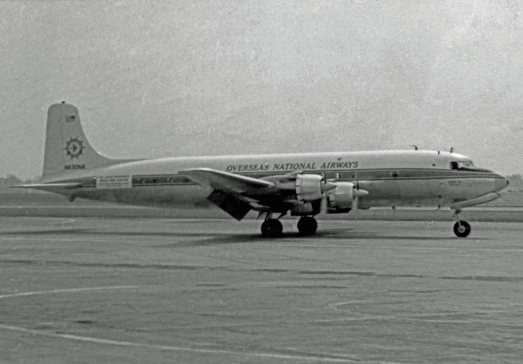 Douglas DC-6A N630NA of Overseas National Airways at Manchester Airport in 1958